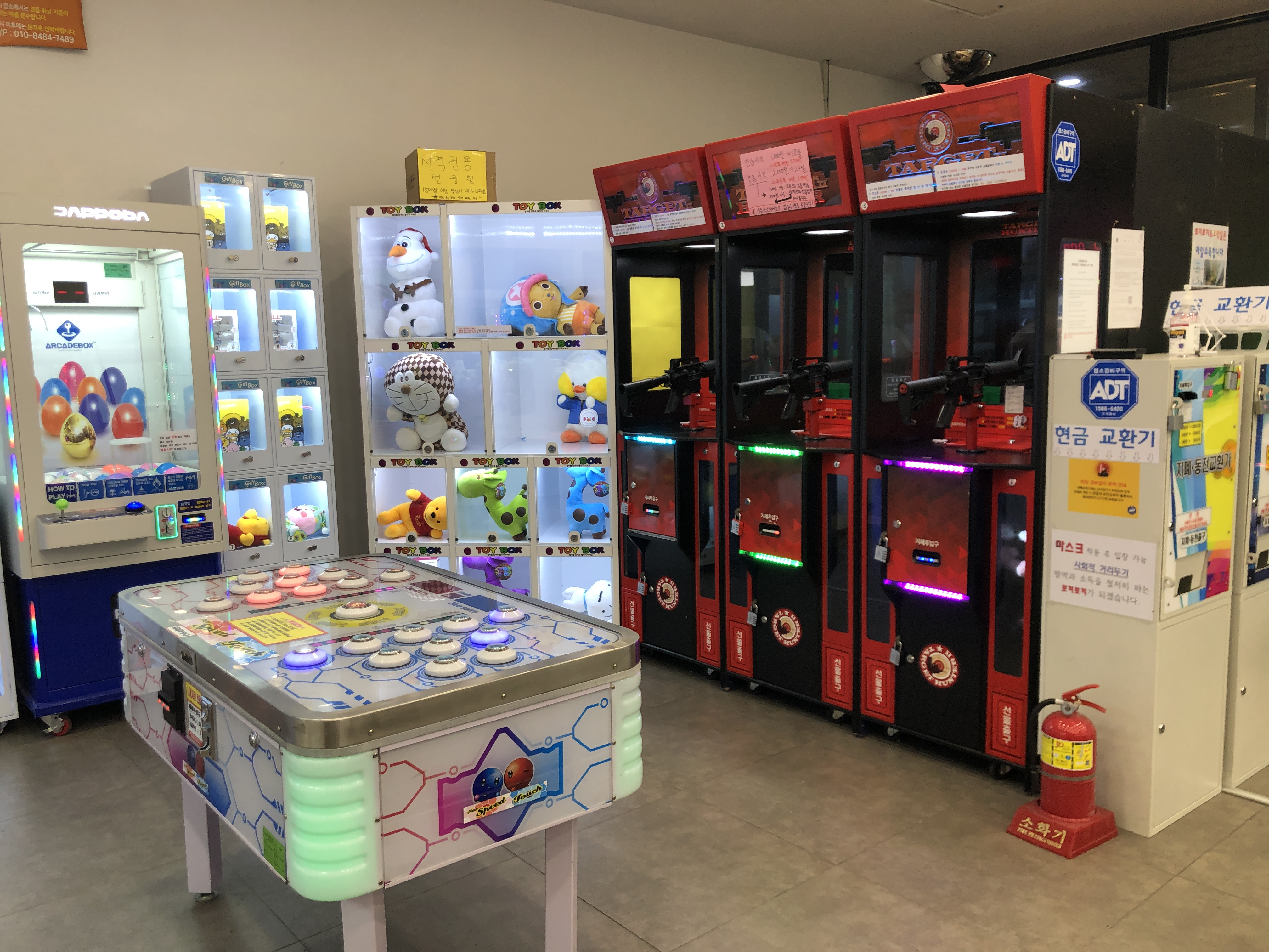 Amusement arcades in Wonju